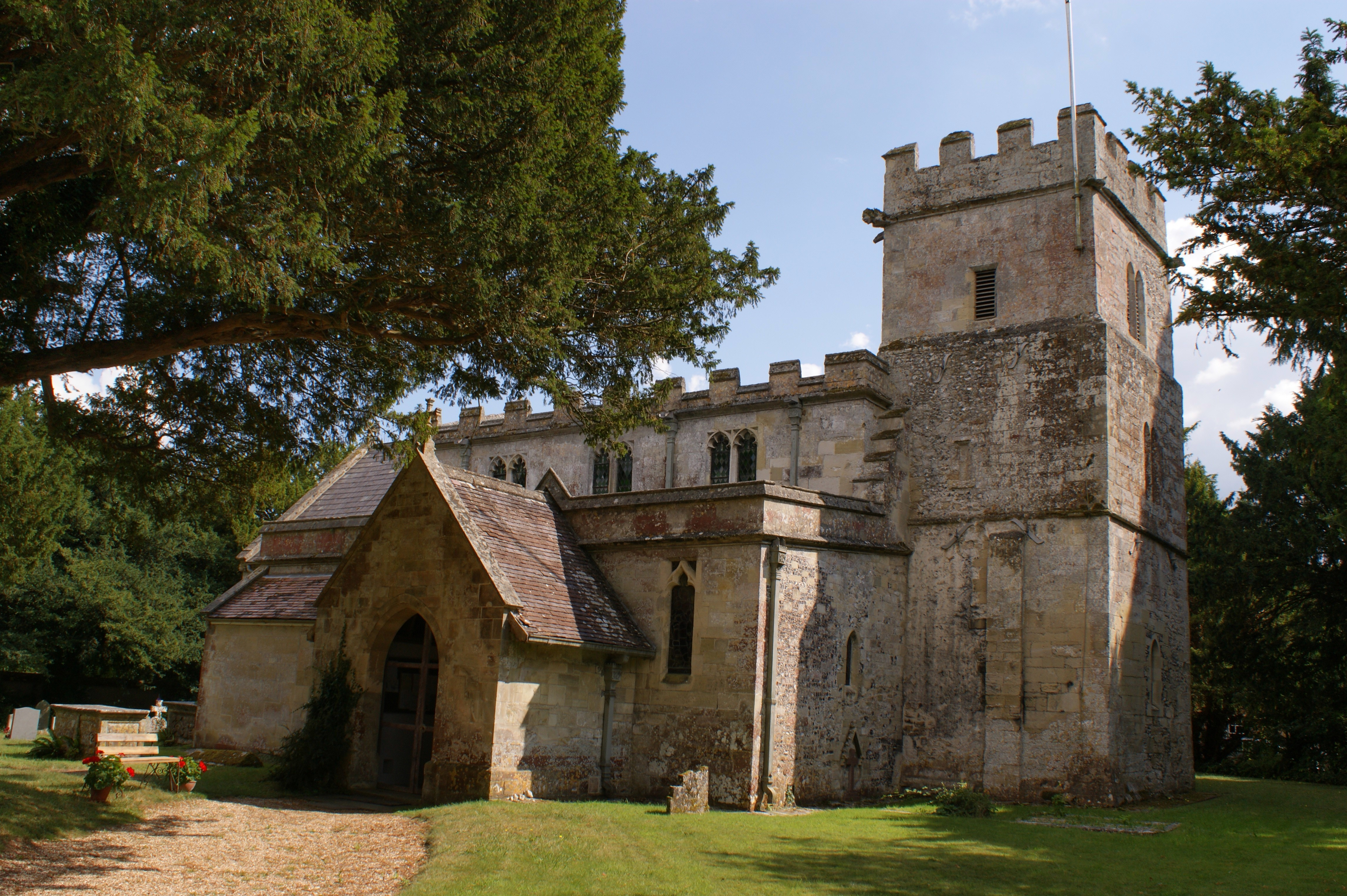 St. John the Baptist, Stockton, Wiltshire. Mainly early 14th (c.1300-50) Century Decorated although the tower is Norman (c.1160) as are the columns and capitals in the nave arcades. Picture taken 27 July 2014.